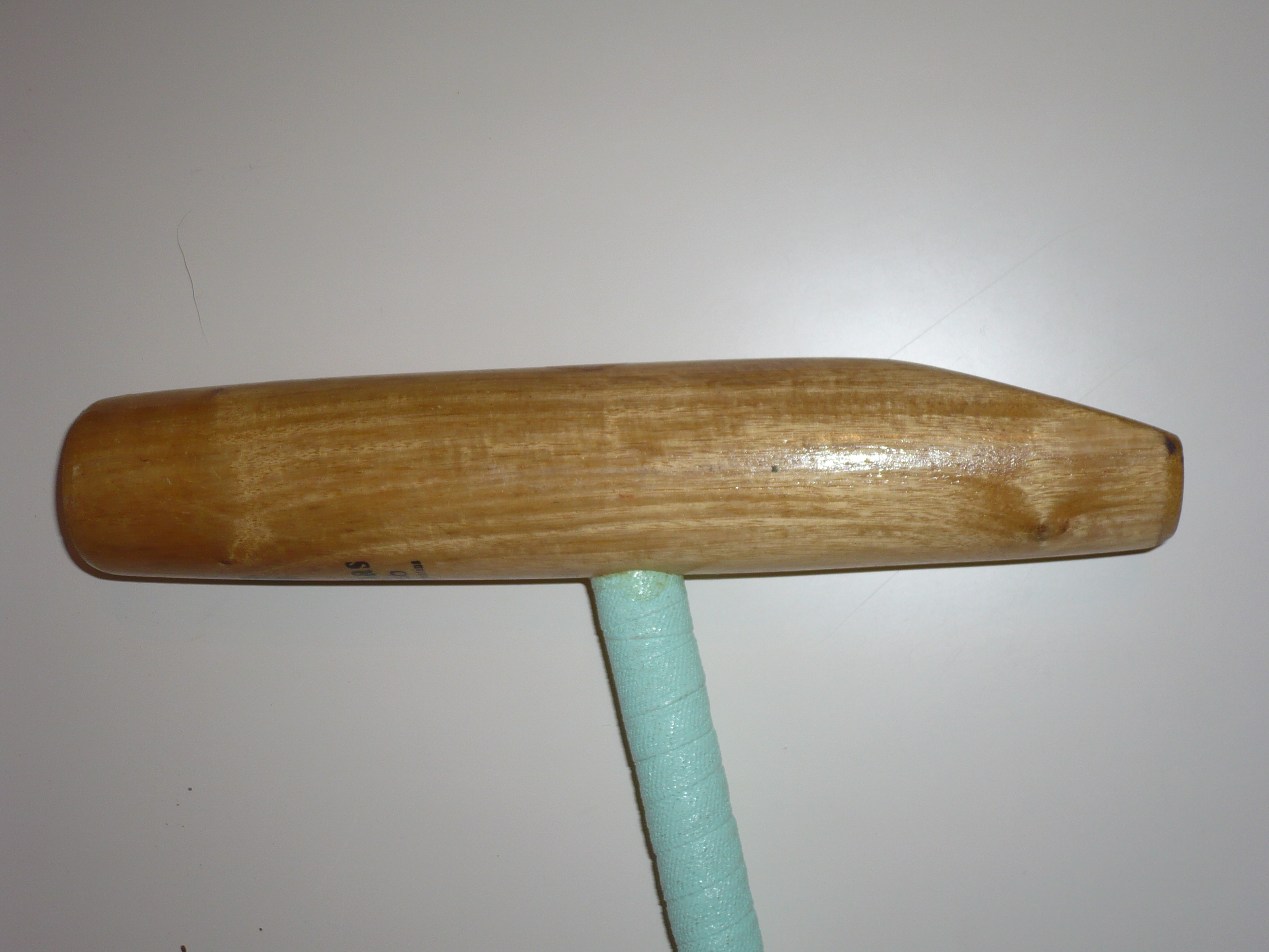 Polo mallet head